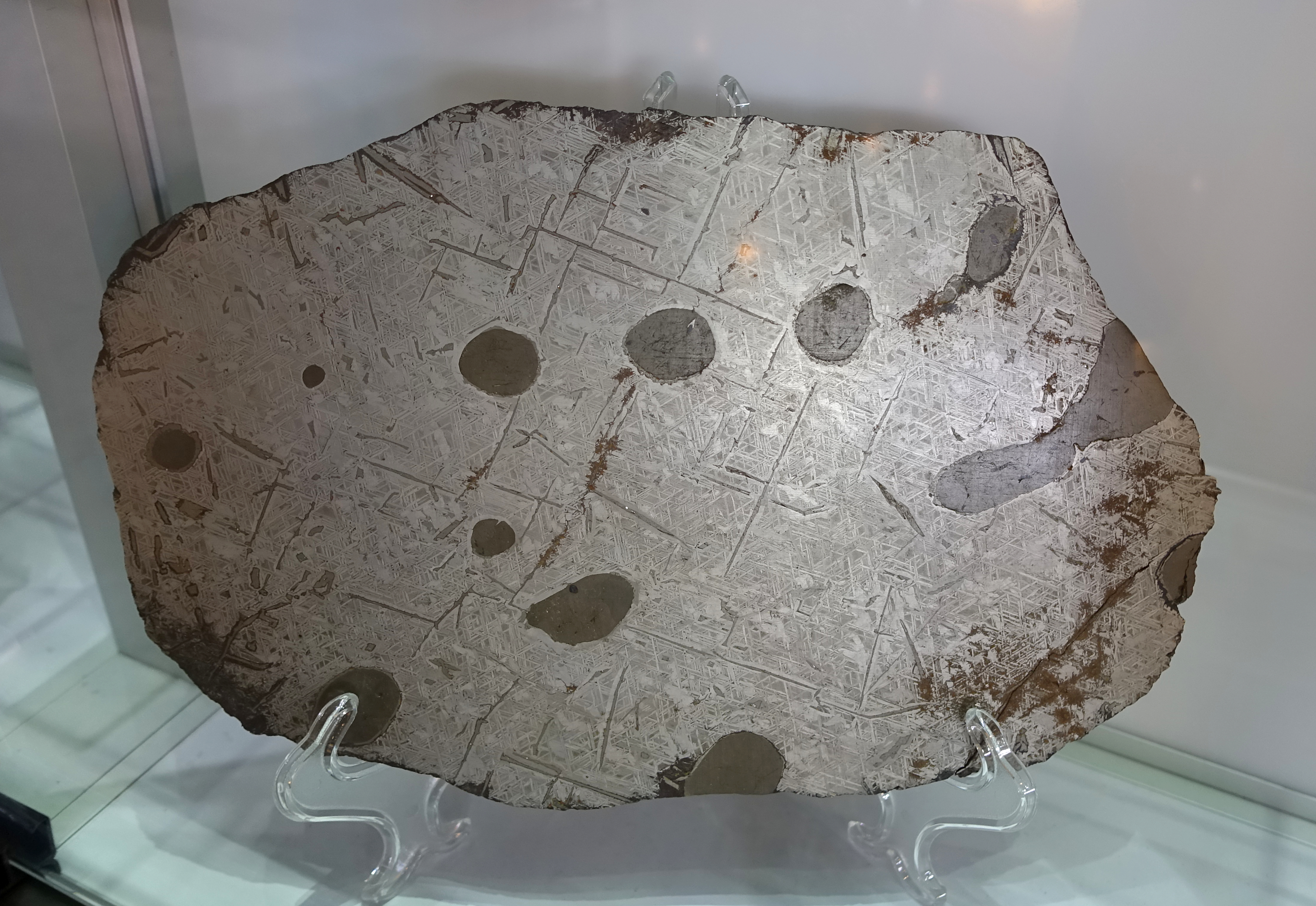 Full slice of Bear Creek meteorite. Exhibit at the Center for Meteorite Studies, Arizona State University, Tempe, Arizona, USA.